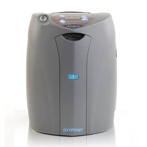 Equinox by Sequal is the most powerful transportable oxygen concentrator in the world: it can reach 3 LPM in continuous flow and 10 LPM in pulse flow